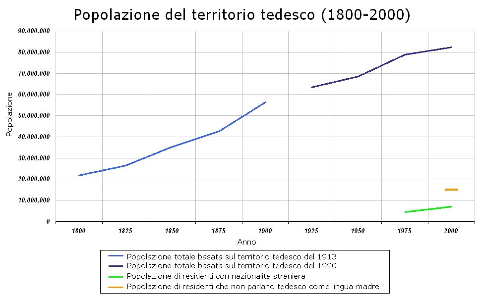 Italian version of File:Population of German territories 1800 - 2000.JPG